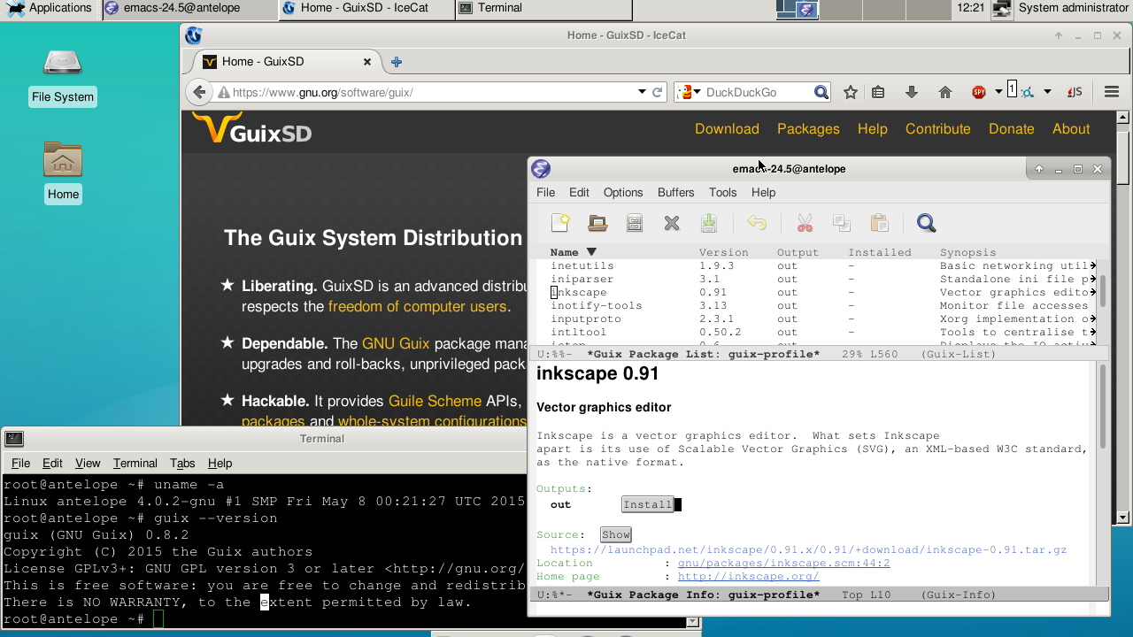 Screenshot of the Guix System Distribution.